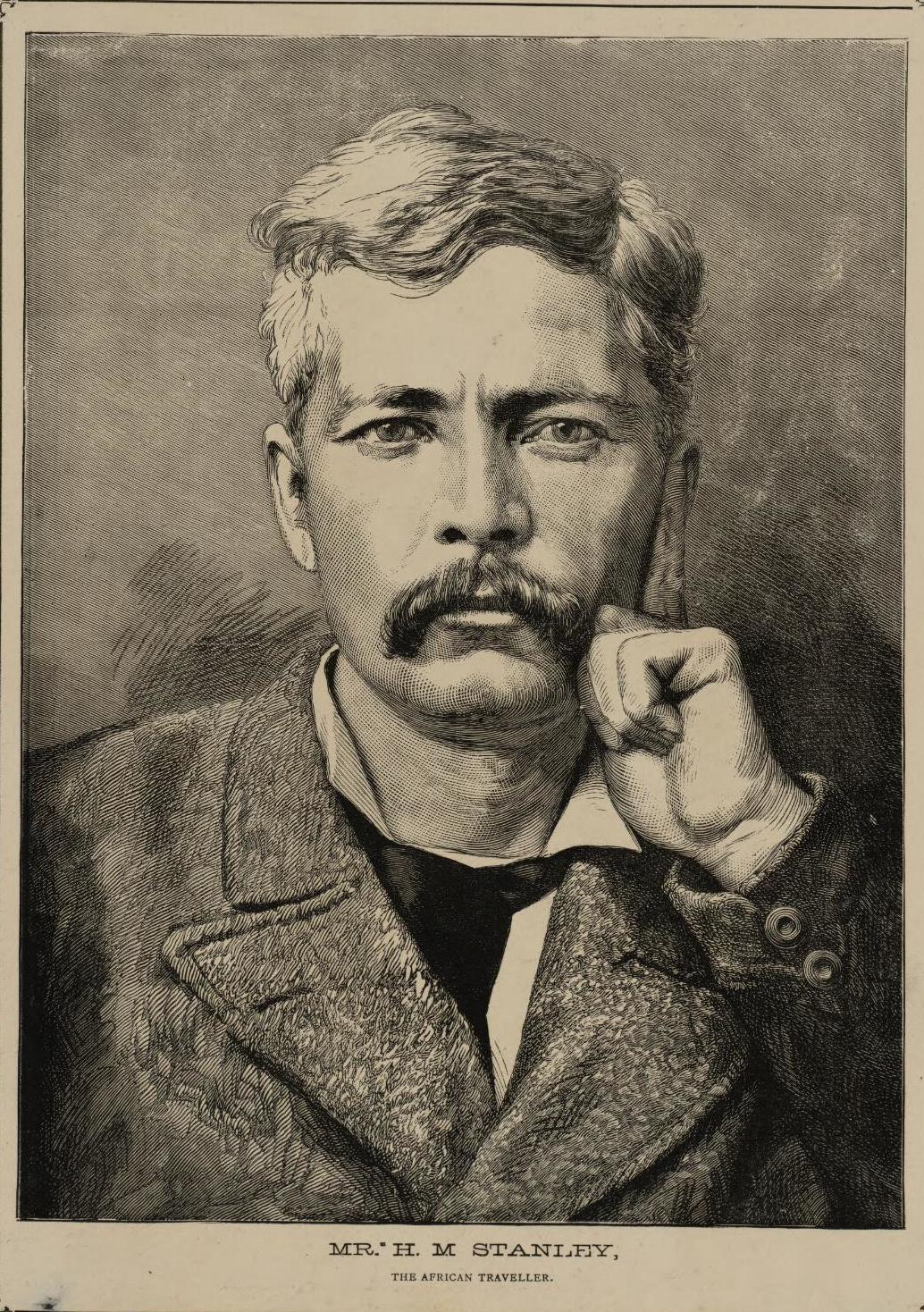 A portrait from the Welsh Portrait Collection at the National Library of Wales. Depicted person: Henry Morton Stanley – Welsh journalist and explorer